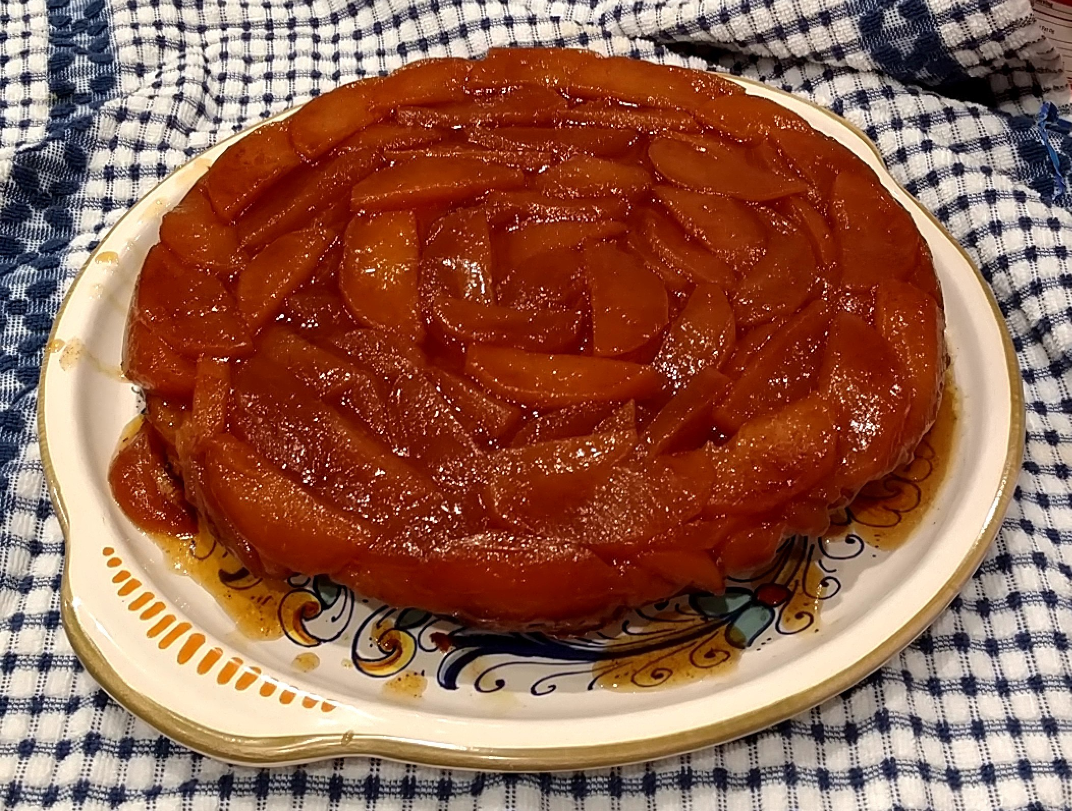 A Tarte Tatin (upside-down caramelized apple pie)